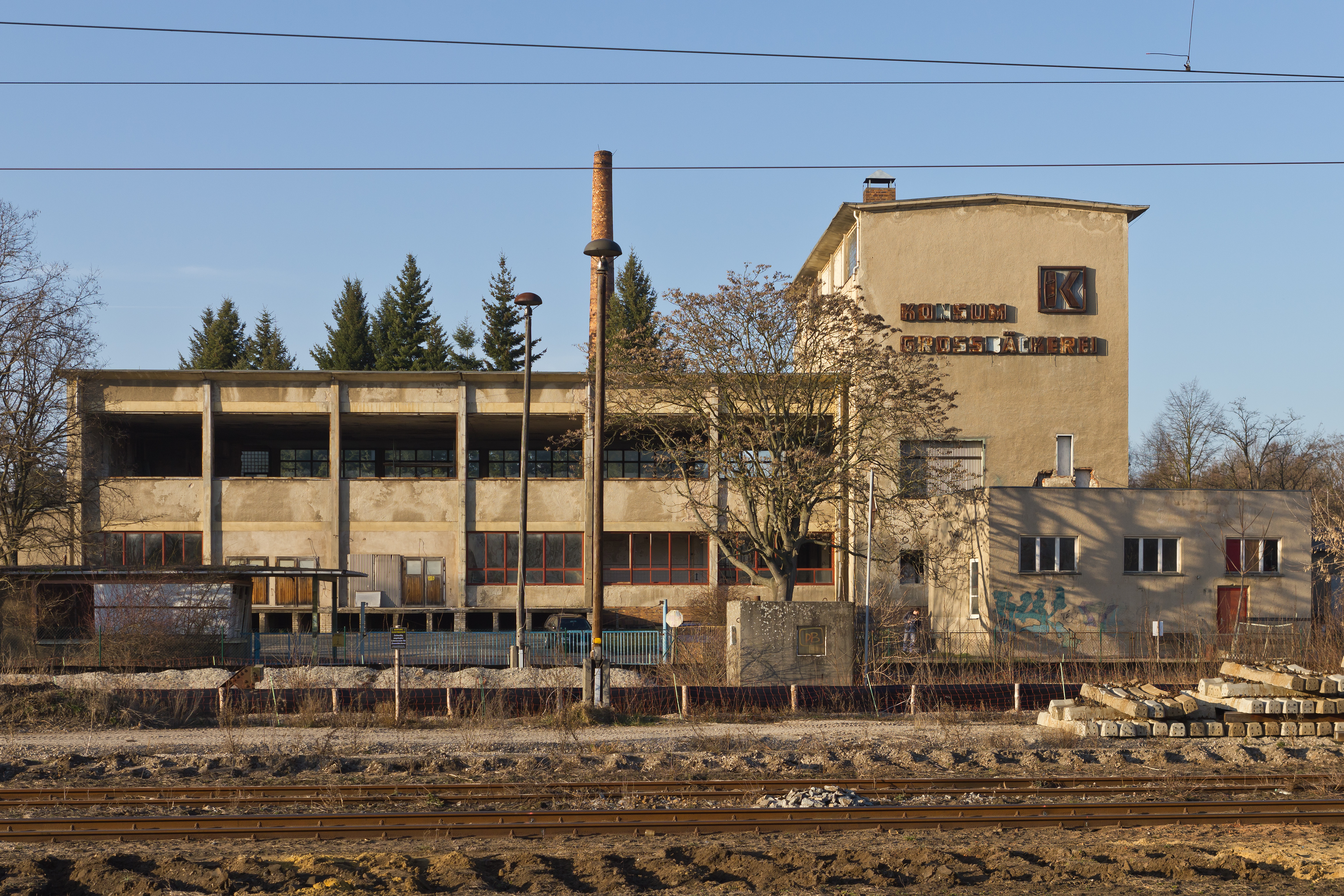 Ruins of a former GDR bakery in Elsterwerda-Biehla, Brandenburg, Germany